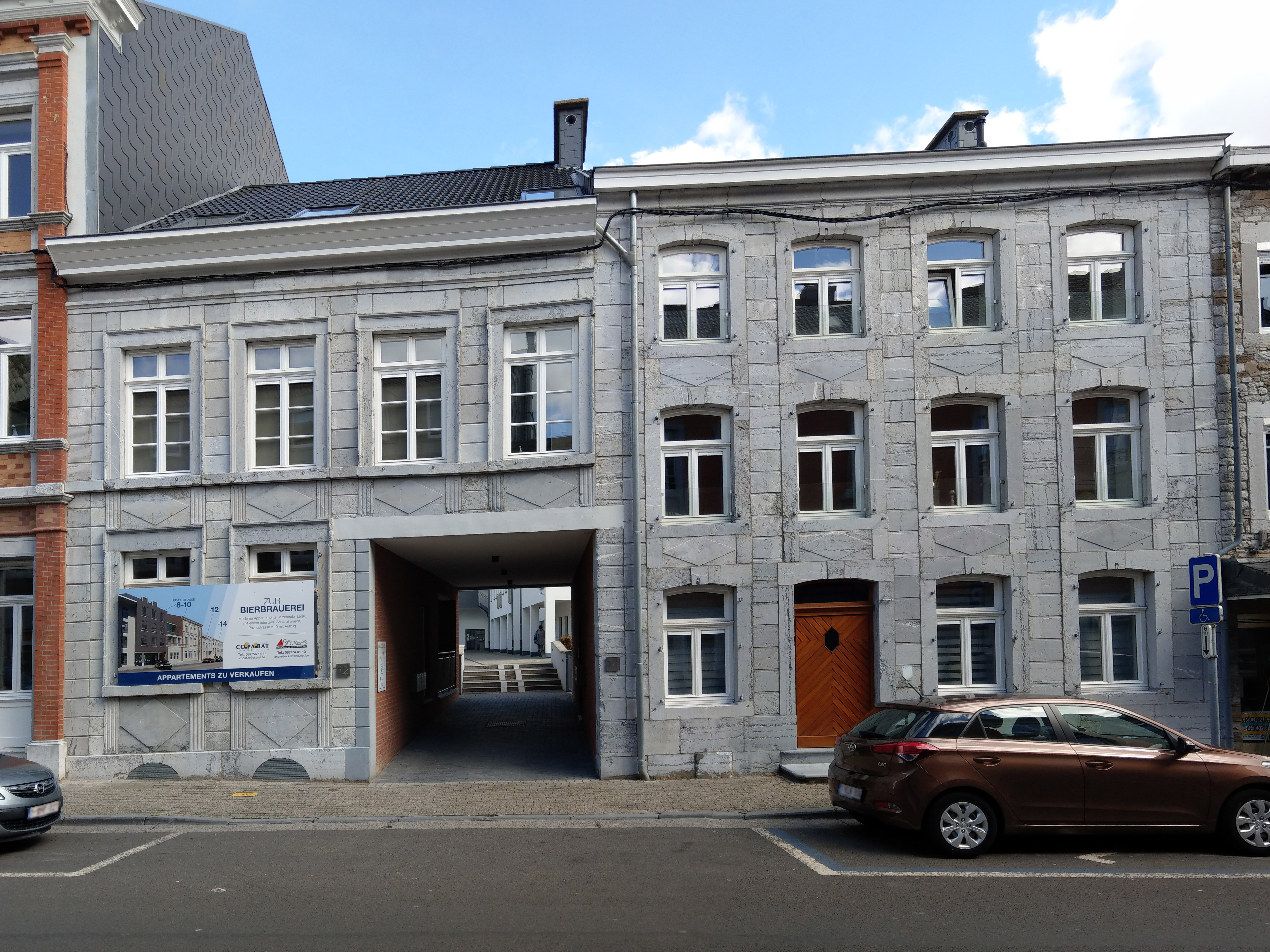 Explanations and history, see category